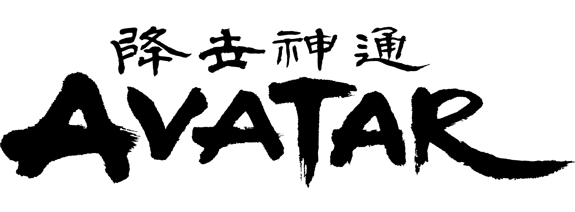 Avatar is an american animated television series that aired for three seasons on Nickelodeon from 2005 to 2008